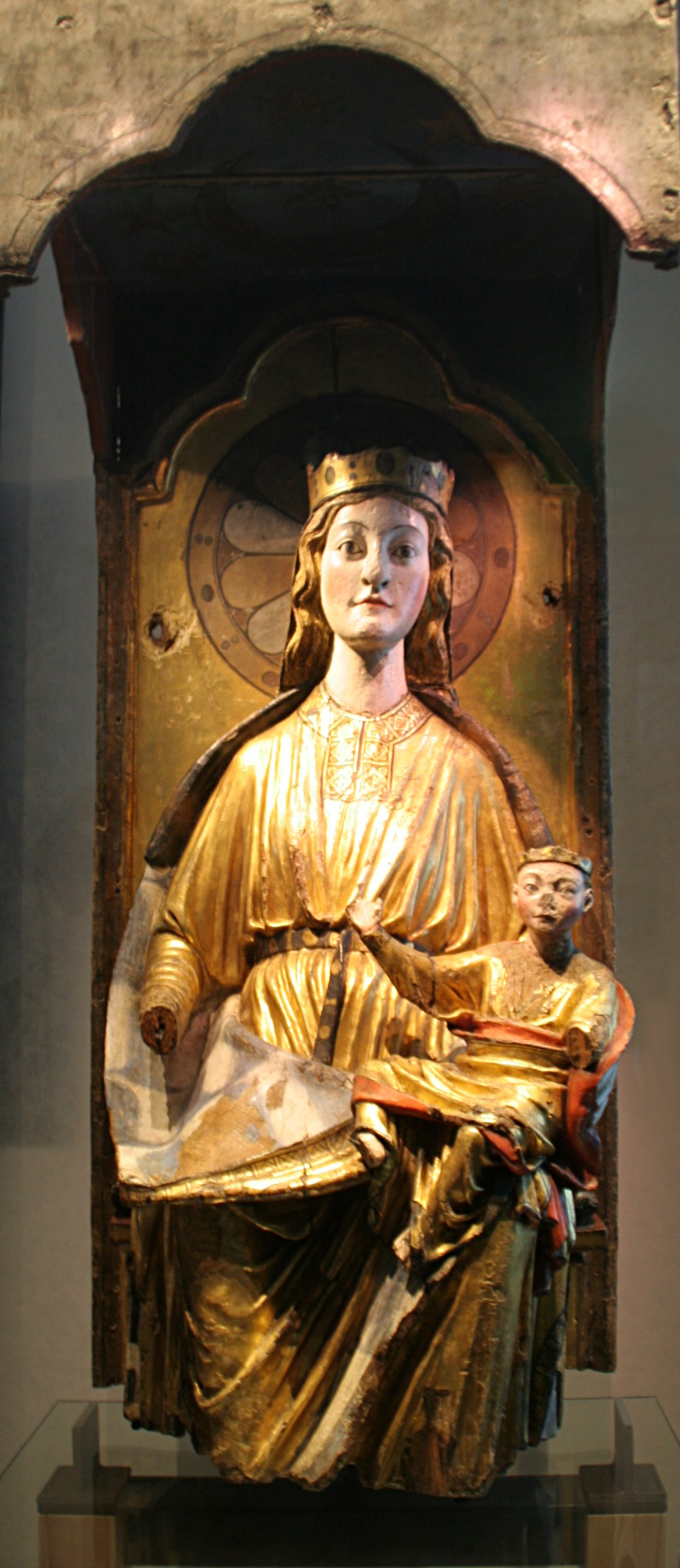 Virgin Mary with the Child from Vik. Previously located at Vik medieval church and Hopperstad stave church.